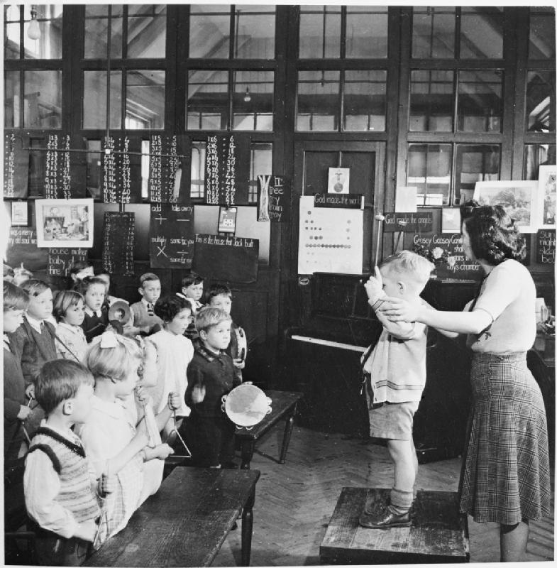 Roman Catholic Elementary School- Life at St Joseph's, Upper Norwood, 1943 A teacher helps a young pupil conduct an 'orchestra' during a music lesson at St Joseph's Elementary School. The boy is using drumsticks or xylophone beaters to conduct the rest of the class, who are playing tambourines, triangles and cymbals. On the walls, various mathematical and grammatical notices can be seen, including the times tables.